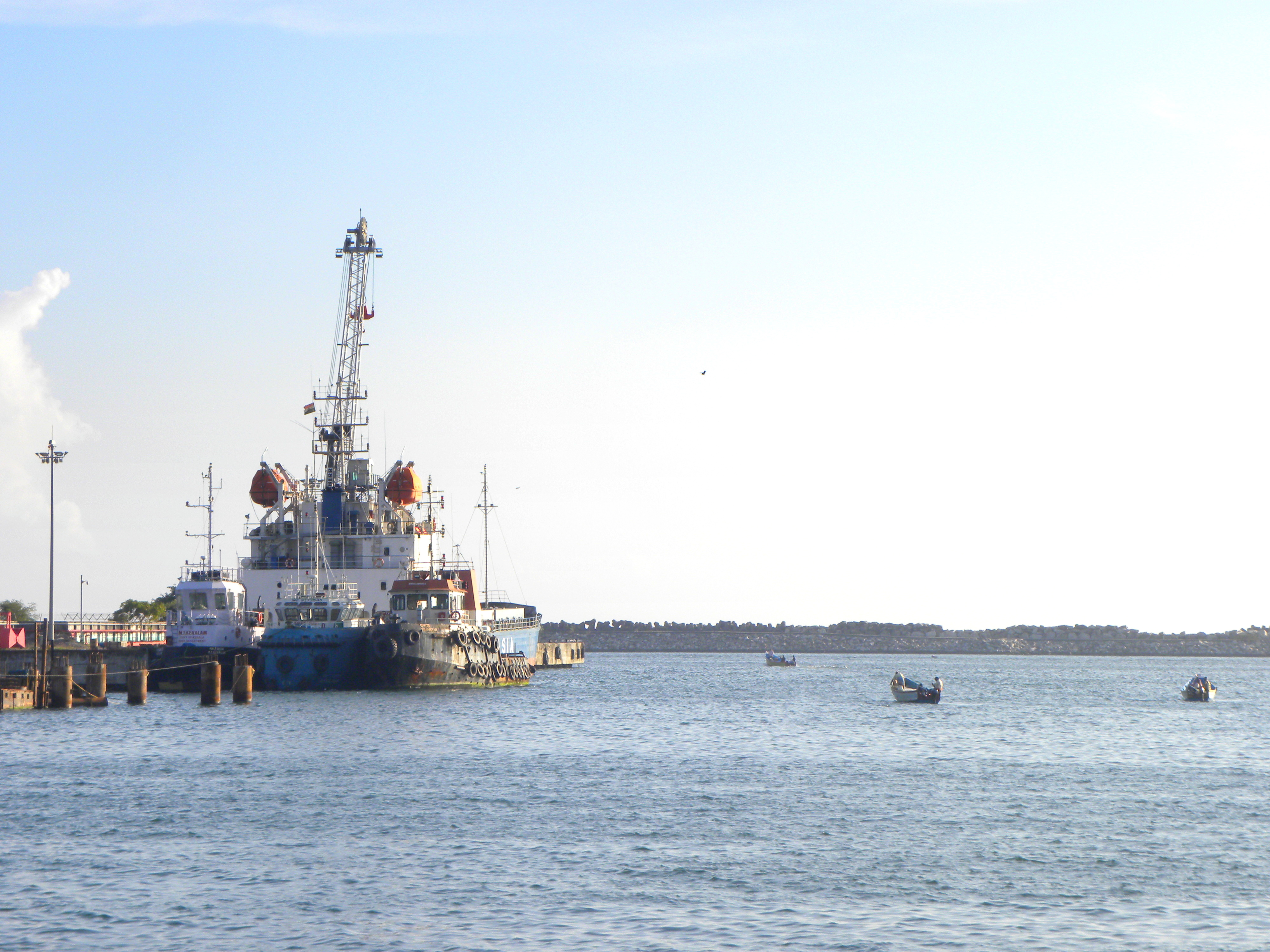 Kollam Port is the second largest port in Kerala